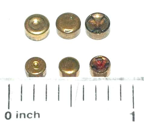 Winchester pistol primers. Image original page Image:Primers.jpg